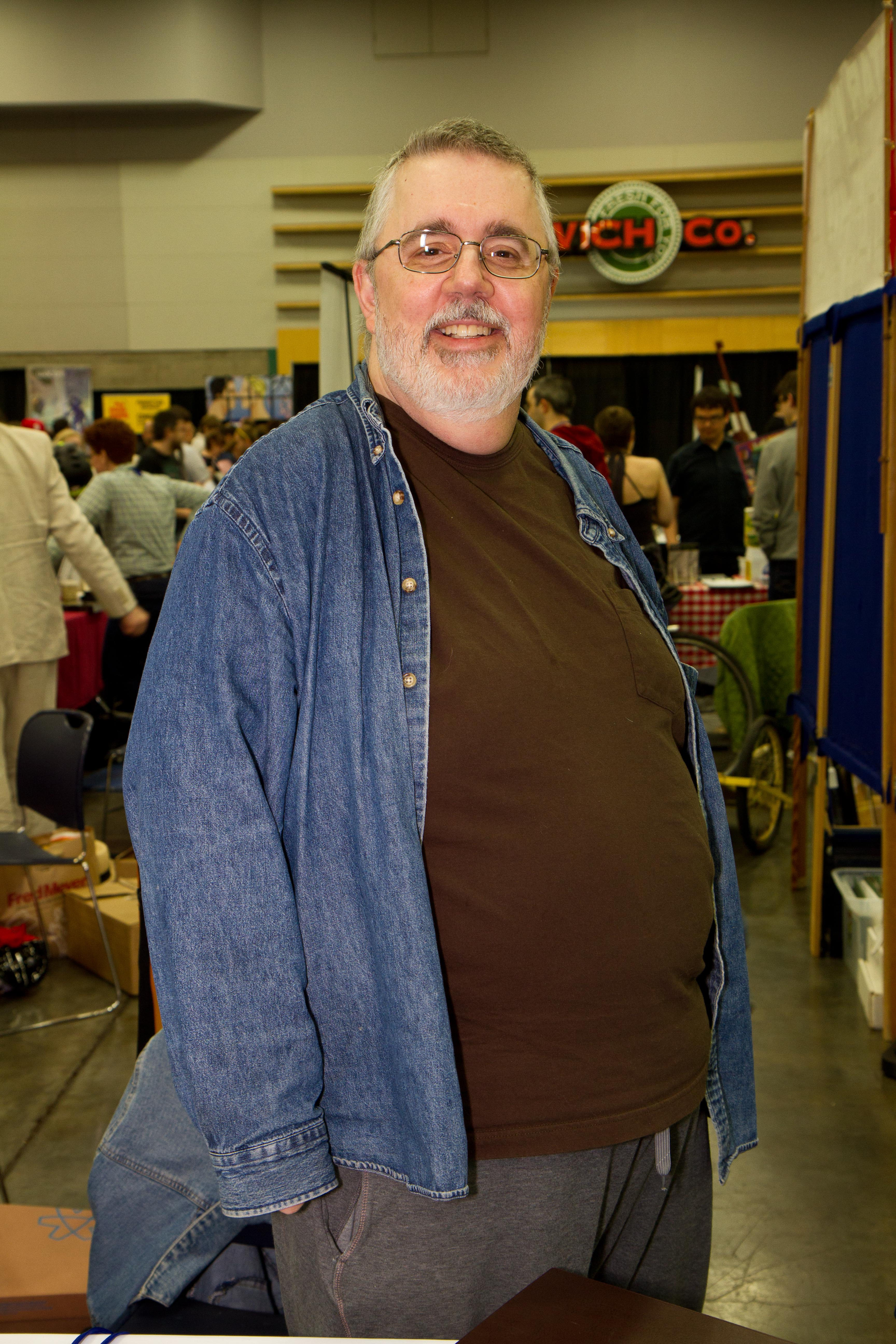 Kurt Busiek of Astro City at the Stumptown Comics Festival. This photo was taken on April 29, 2012 using a Canon EOS 7D.